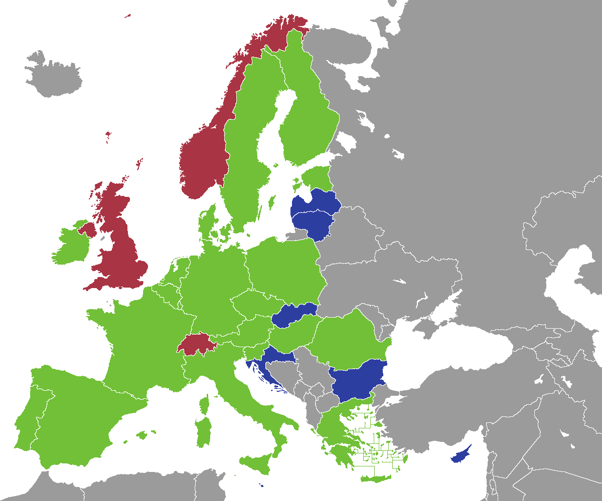 Red: ESA membership only.Green: ESA and EU memberships.Blue: EU membership only.